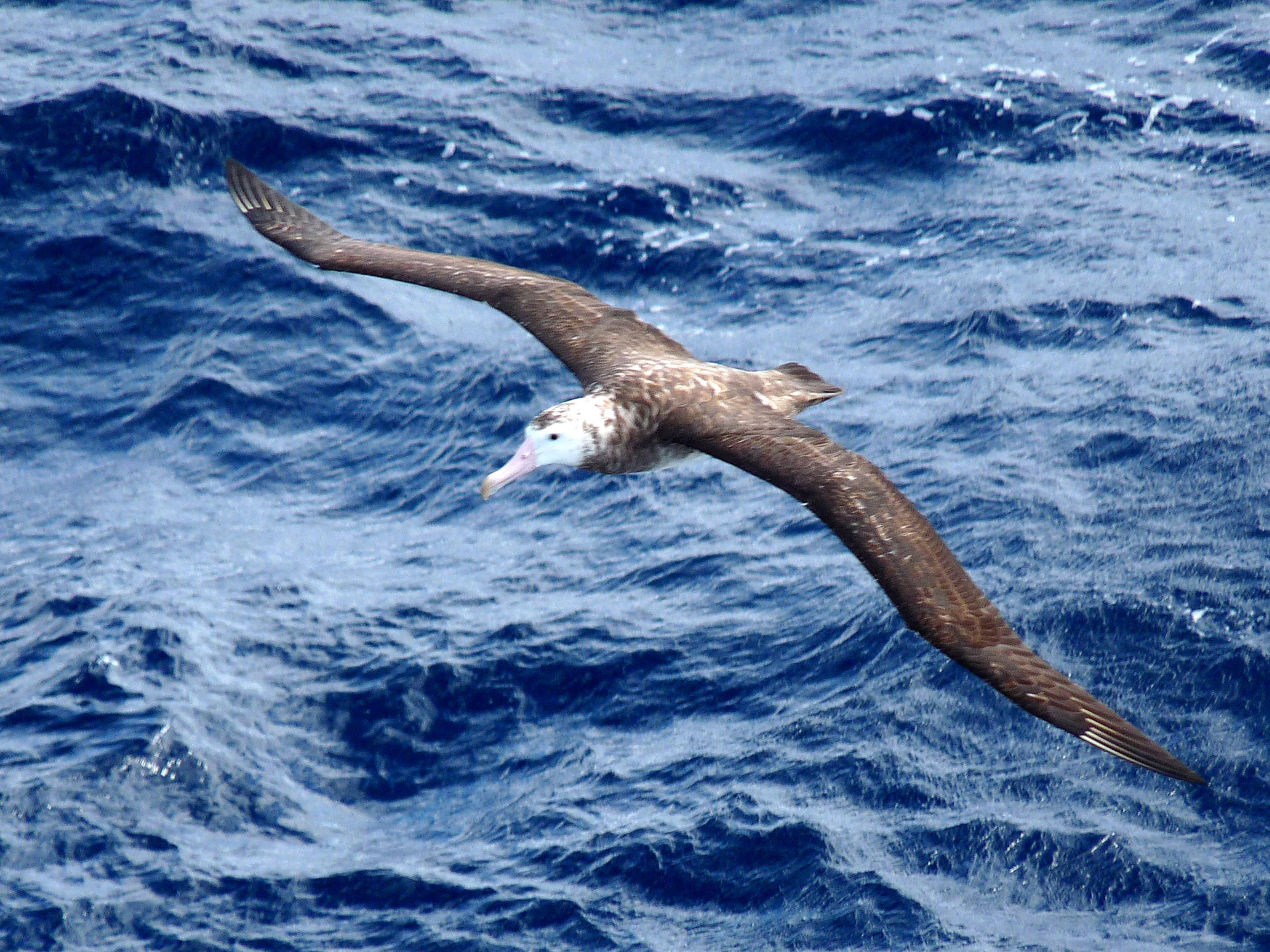 Tristan Albatross Diomedea dabbenena, off Tristan da Cunha